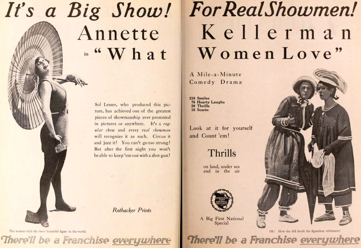 Advertisement for the American comedy drama film What Women Love (1920) with Annette Kellerman, on pages 24 and 25 of the August 14, 1920 Exhibitors Herald.